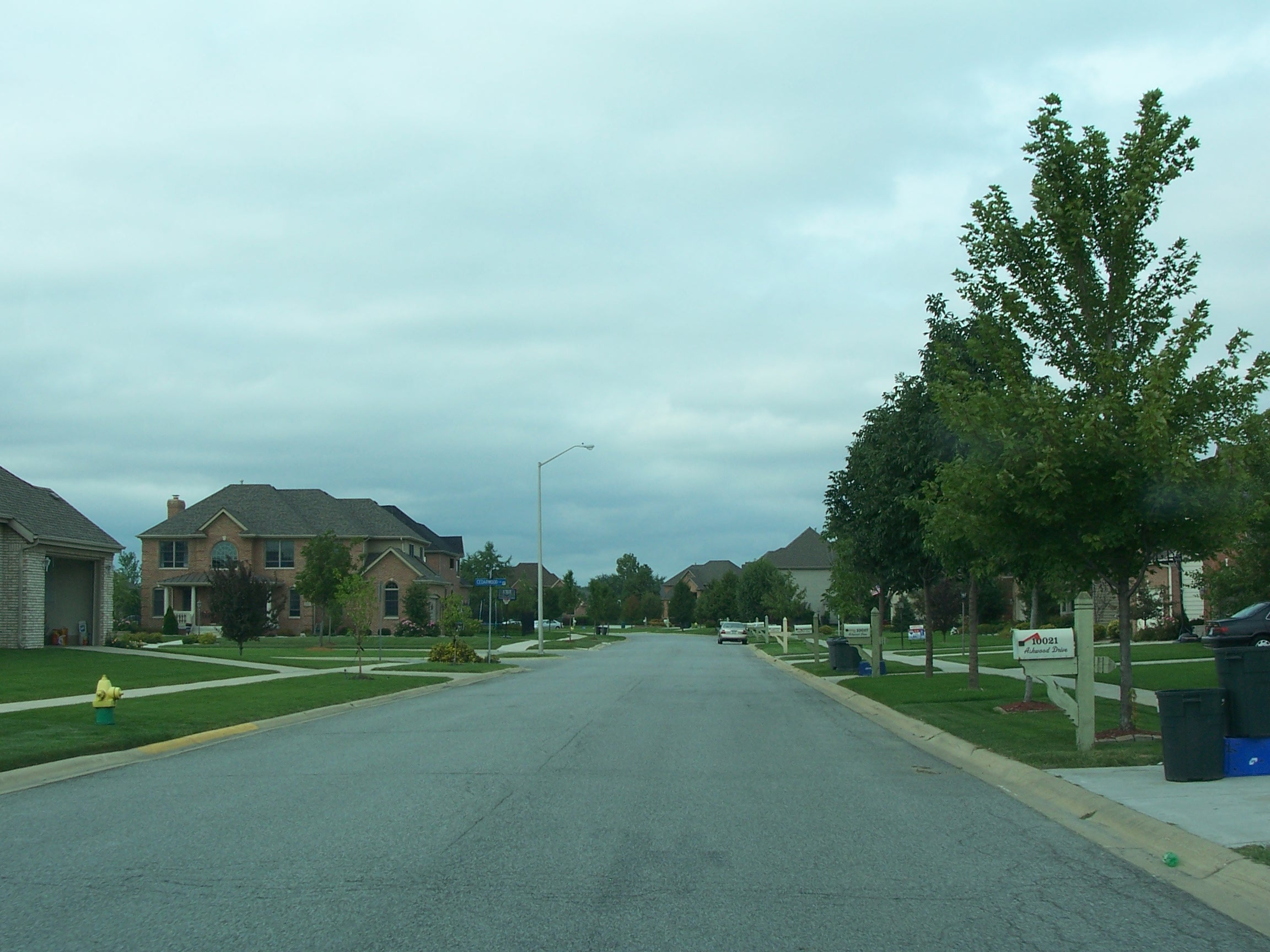 Ashwood Ln. in White Oak Estates in Munster, Indiana.